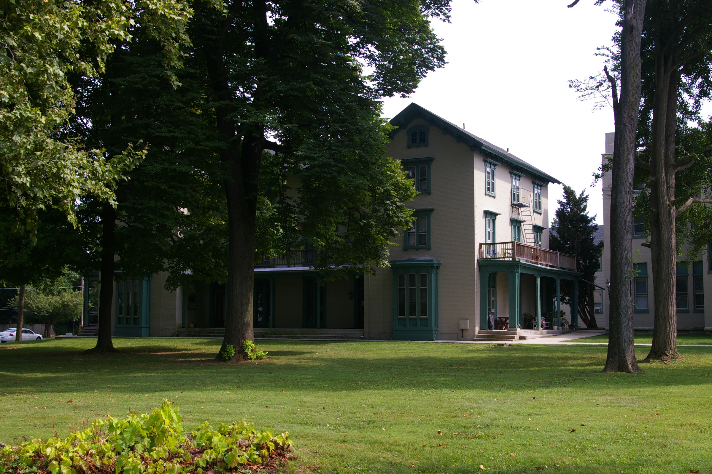 East (older) building of Irving Female College, Filbert, Main, and Simpson Streets, Mechanicsburg, Pennsylvania, USA. Listed on the National Register of Historic Places.